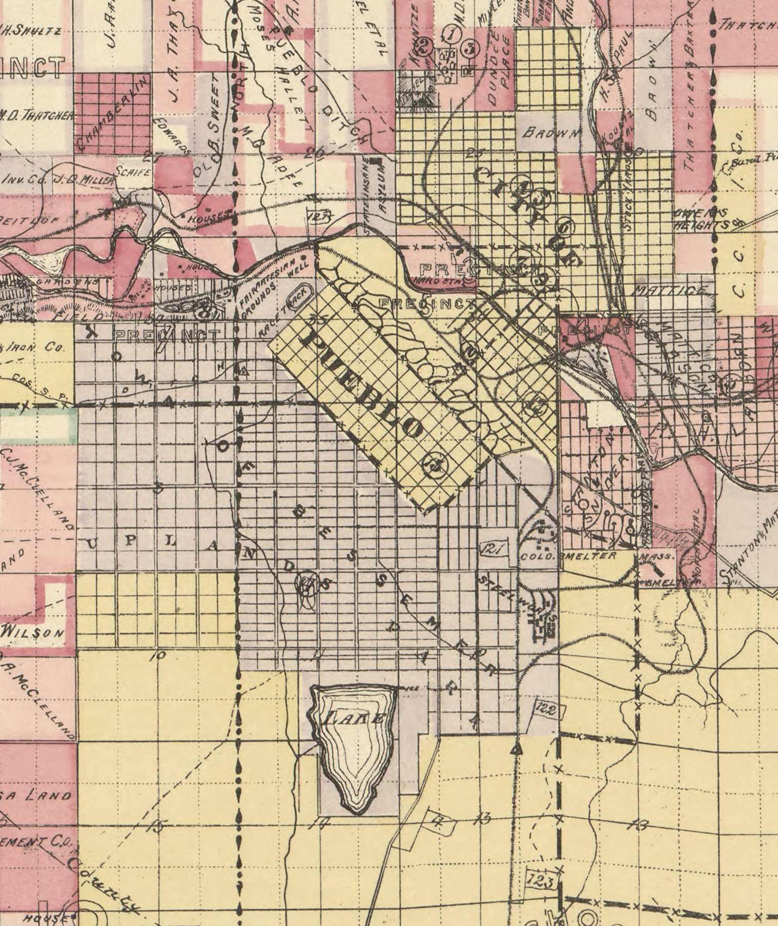 A crop of a map of Pueblo County, Colorado showing the Town of Bessemer and City of Pueblo in 1888.